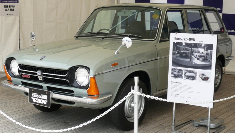 Subaru ff-1 1300G 4WD.